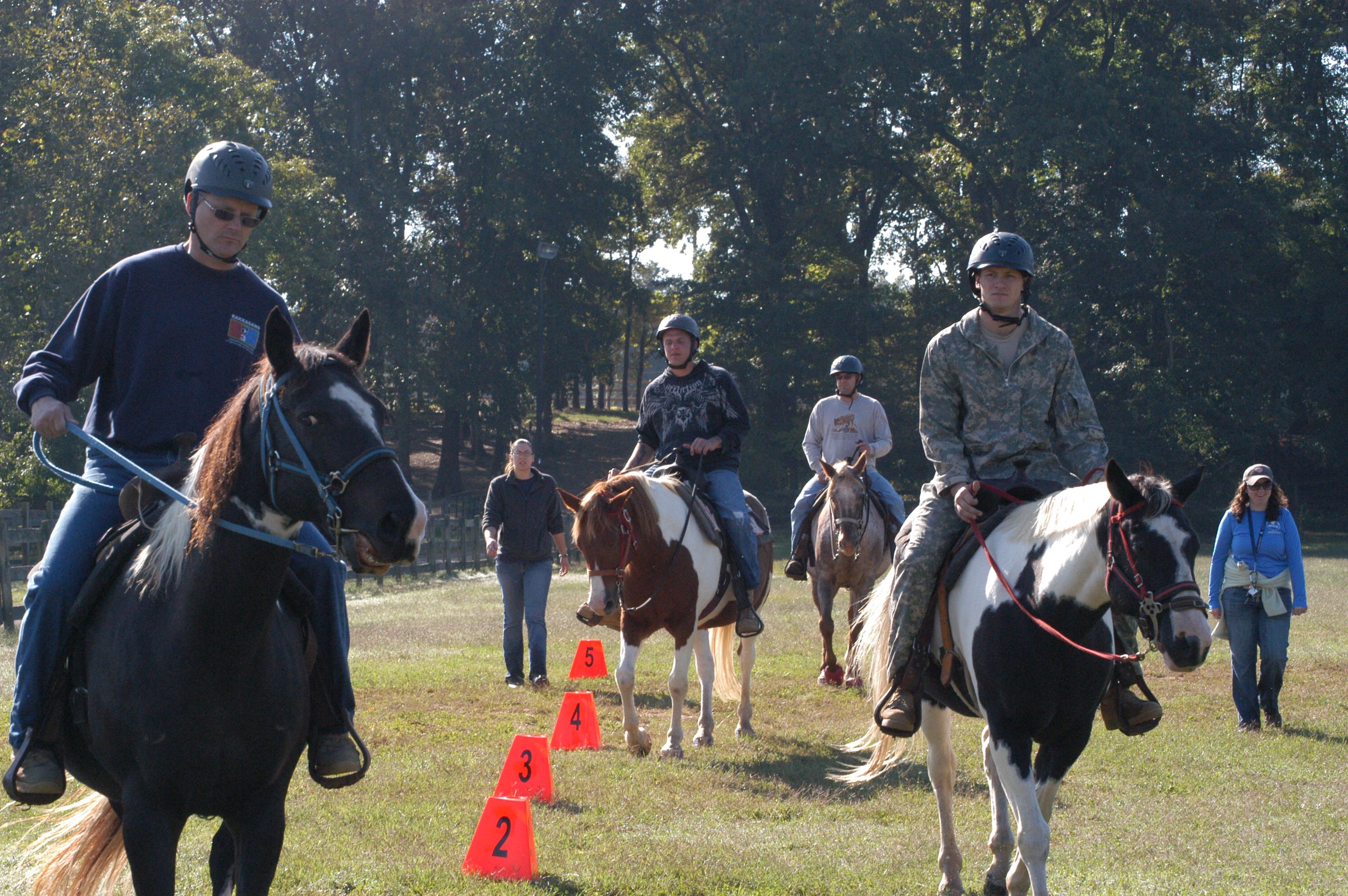 Soldiers from the Warrior Transition Battalion make their morning rounds every Wednesday, as part of the therapeutic horse program led by certified therapists who help physically and psychologically wounded Soldiers. This ride helps coordinate their memory and coordination by maneuvering around numbered markers on the ground.